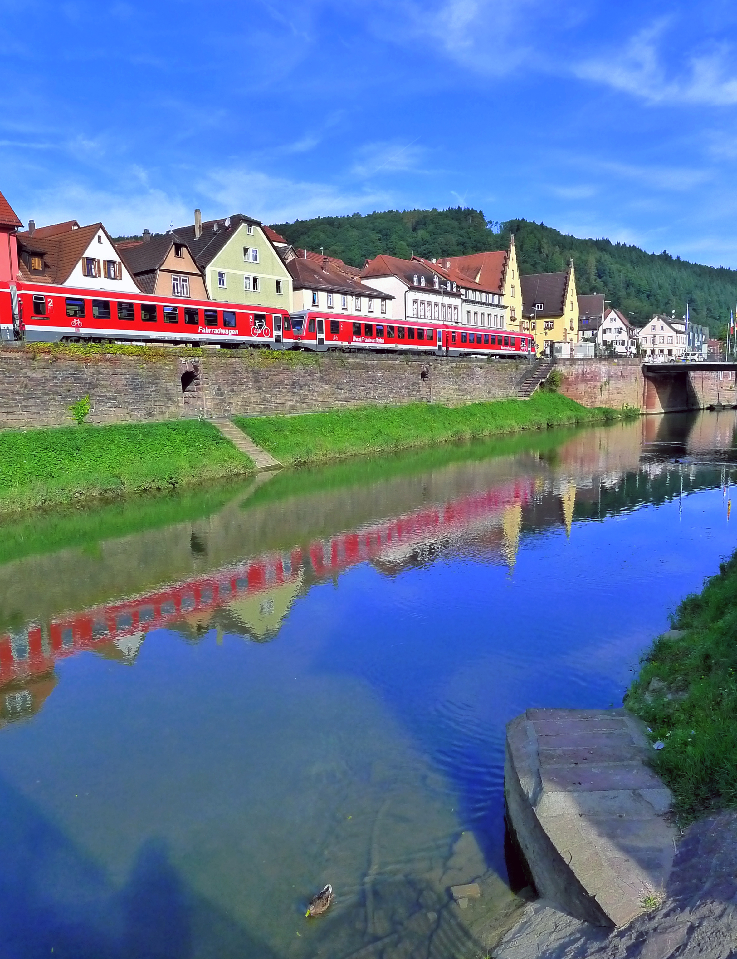 The Tauber River in Wertheim.